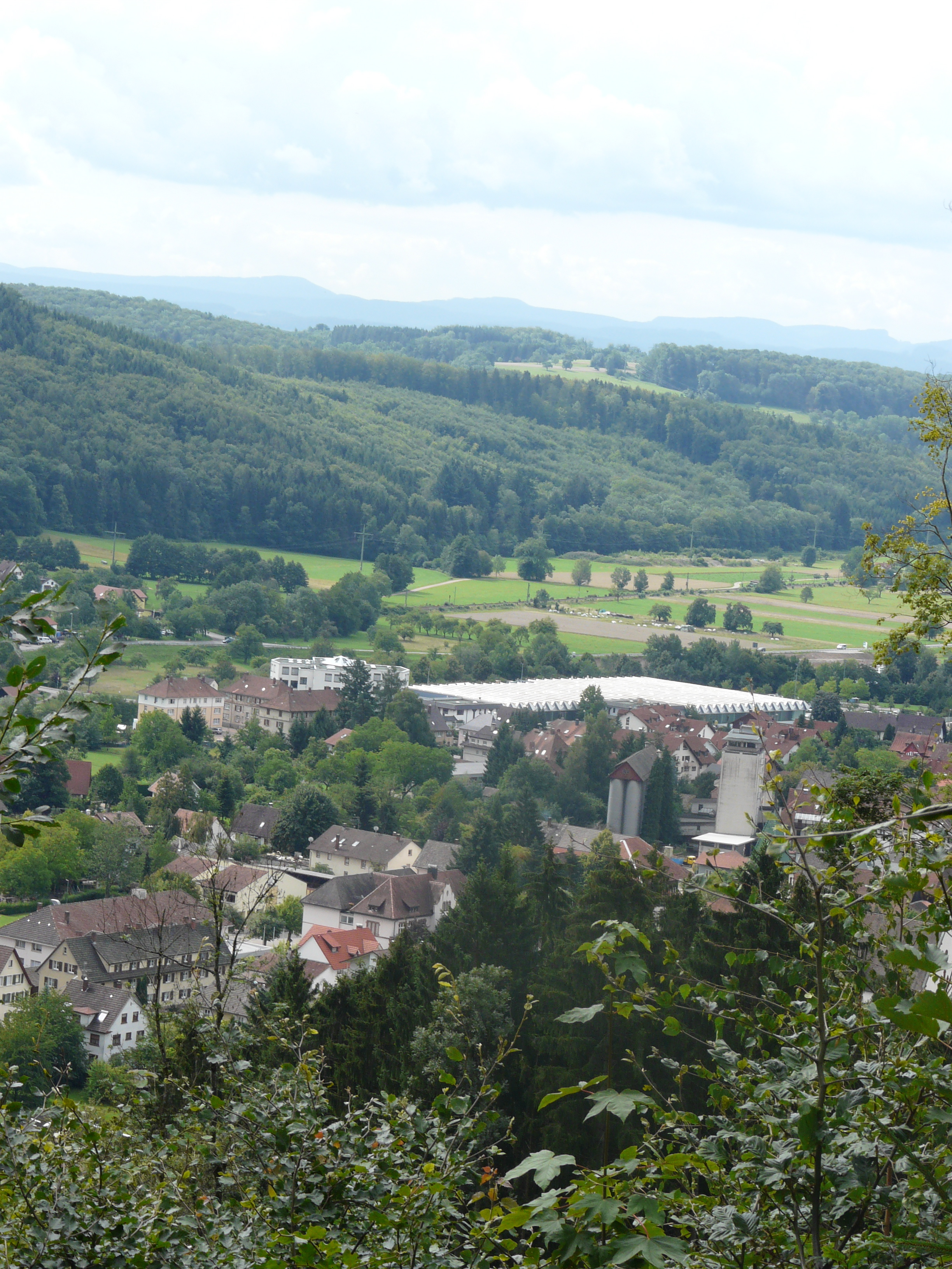 Middle and Southern part of Hausen im Wiesental, viewed from Kölsberg